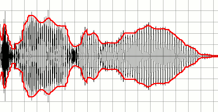 C Envelope top and bottom, complete envelope